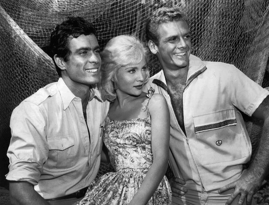 Photo of Gardner McKay as Adam Troy, guest star Susan Oliver and Guy Stockwell as Chris Parker from the television program Adventures in Paradise.